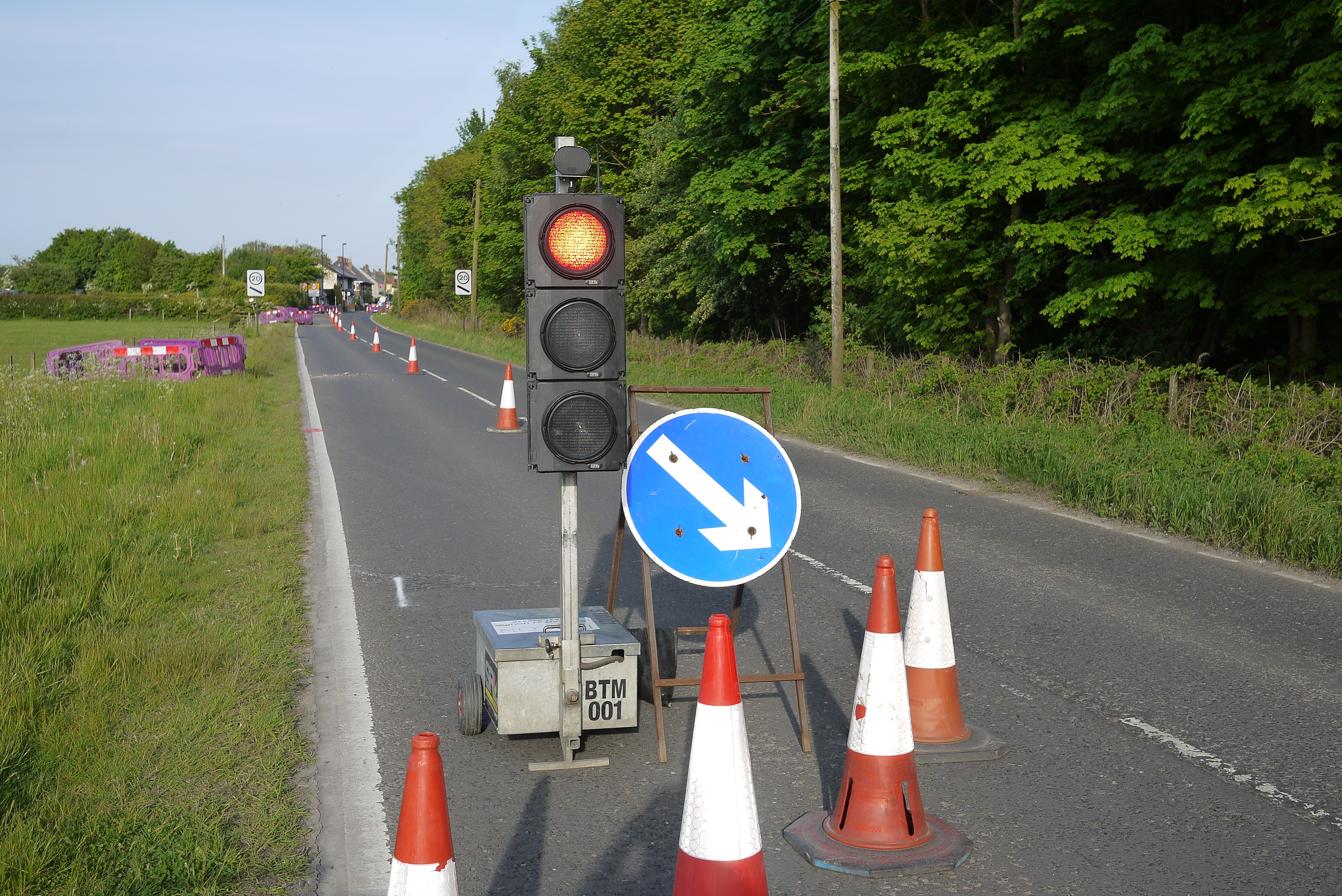 Temporary traffic light near Hazlerigg, Newcastle upon Tyne